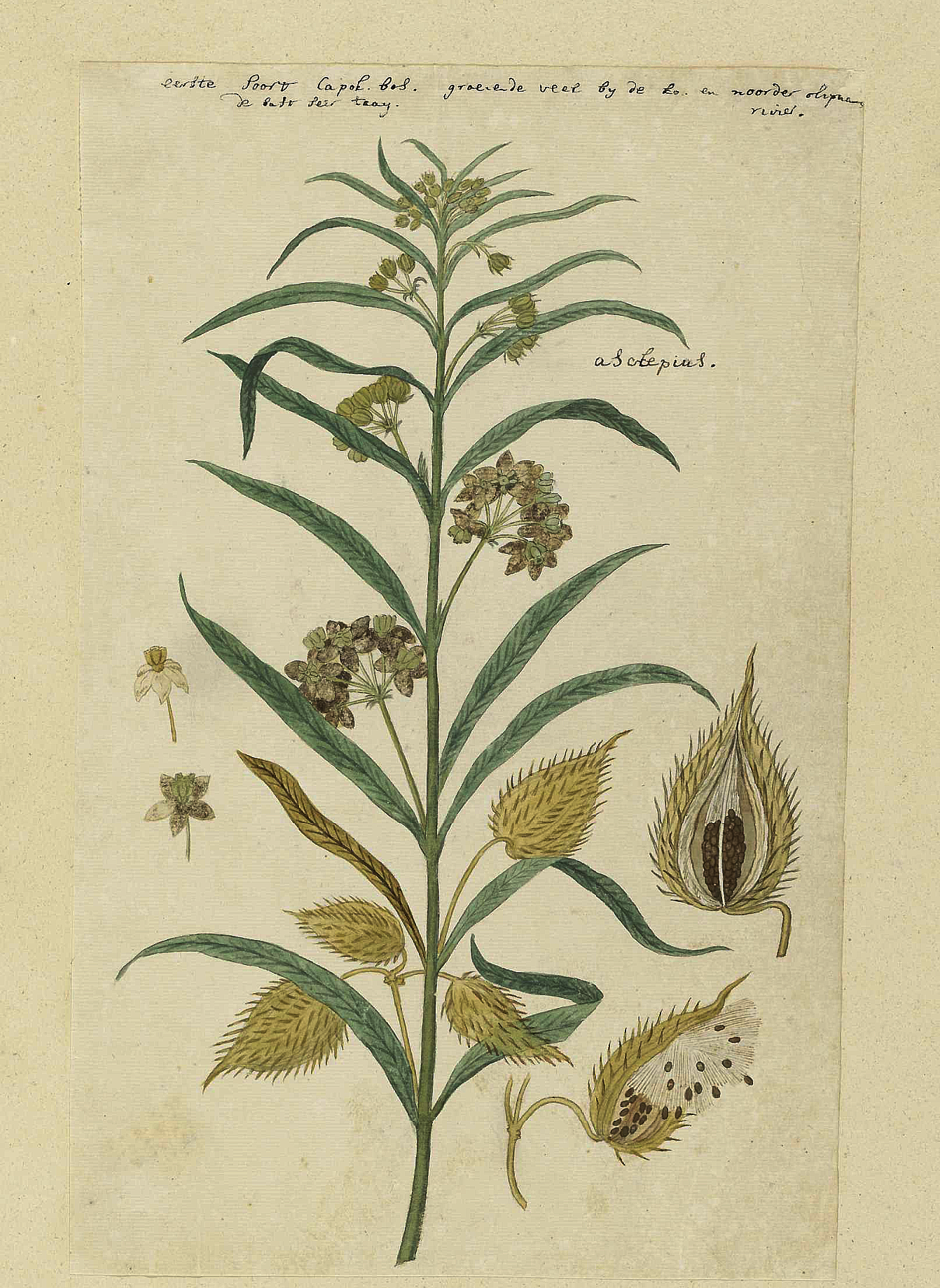 Gomphocarpus fruticosus, formerly Asclepias fruticosa (Tennis-ball milkweed)